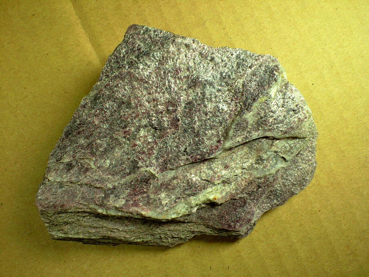 piemontite